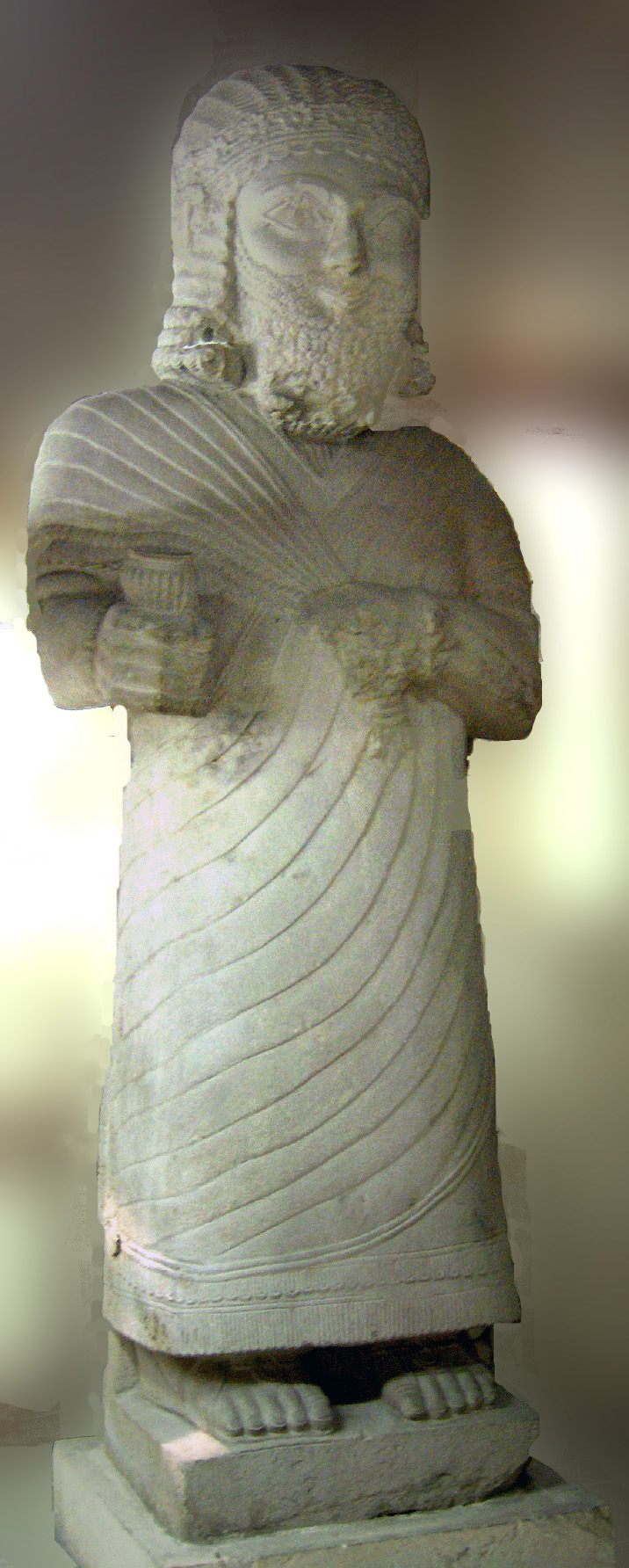 Monumental statue of king Tarhunza; limestone; height : 318 cm; end of 8th c. BC; Malatya (Arslantepe); Museum of Anatolian Civilizations, Ankara, Turkey